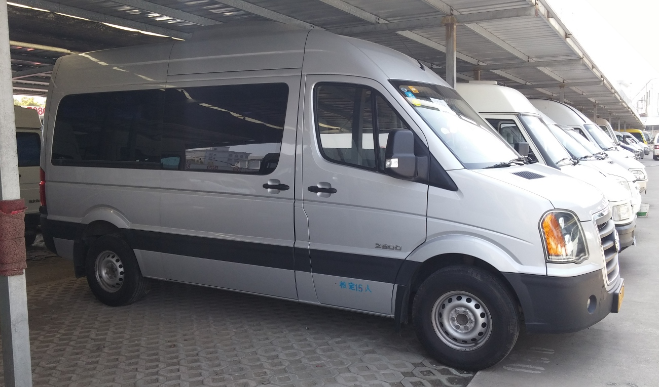 Huanghai Raytour photographed in Shanghai, China.